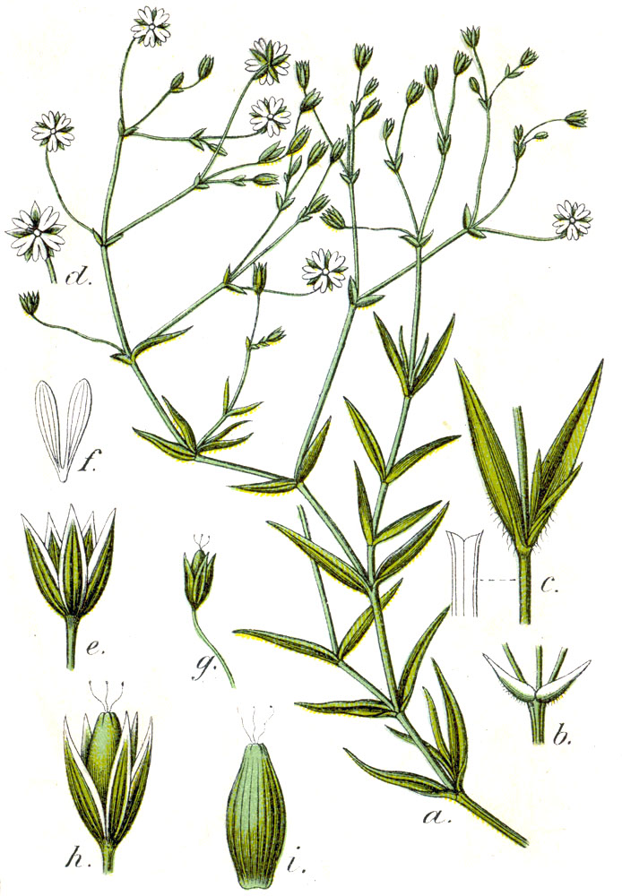 Gras-Sternmiere, Stellaria graminea L., syn. Alsine graminea (L.) Britton Original Caption Gras-Miere, Alsine graminea